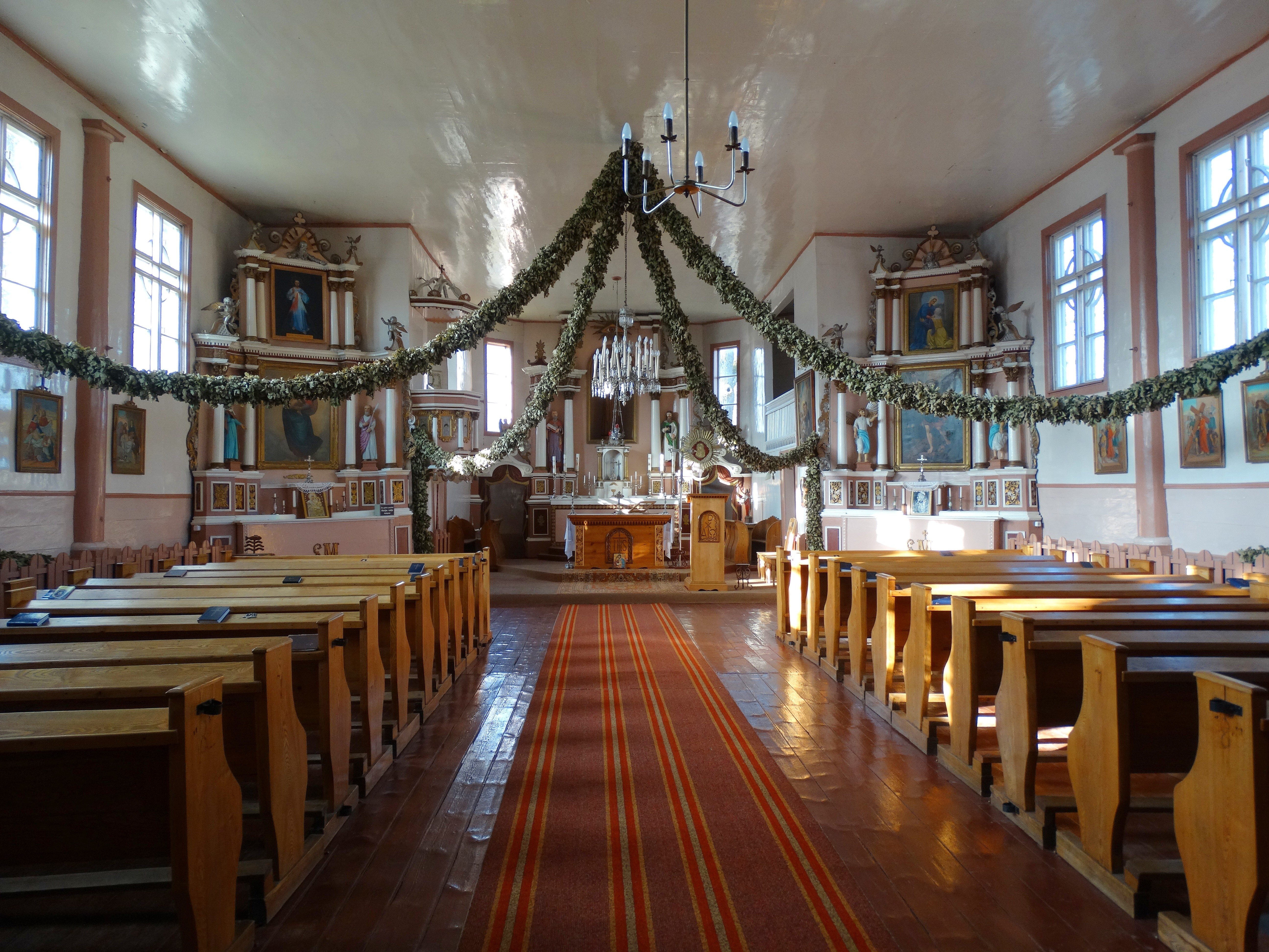 Church of St. Anthony of Padua in Stakiai, inscribed stone, Jurbarkas district, Lithuania